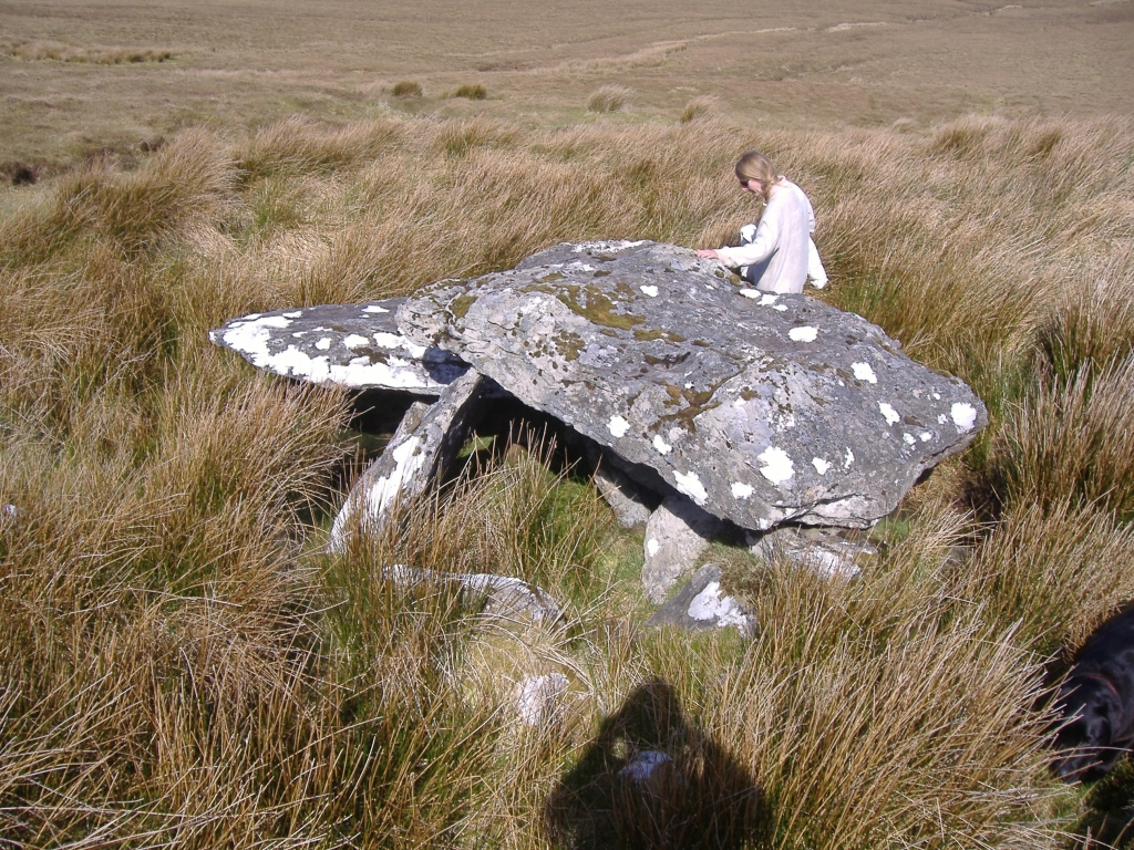 A lovely unclassified megalithic tomb situated on the north slopes of Faulagh mountain, Kilcommon, Erris, County Mayo